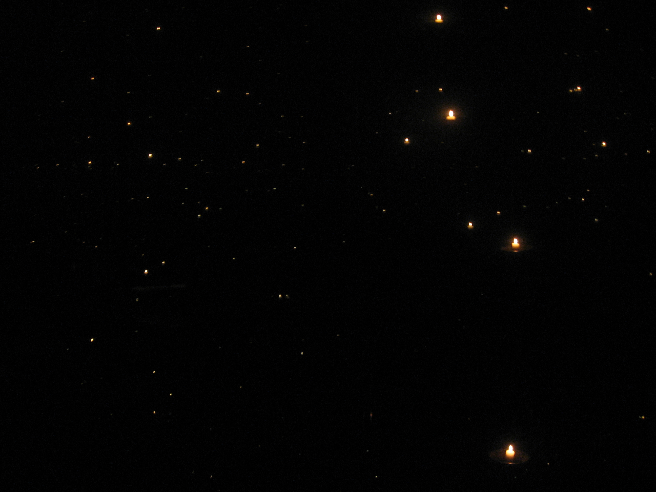 A photograph from within the children's hall at Yad VaShem. The hall looks like the stars in the sky, but is actually a reflection of only five candles.